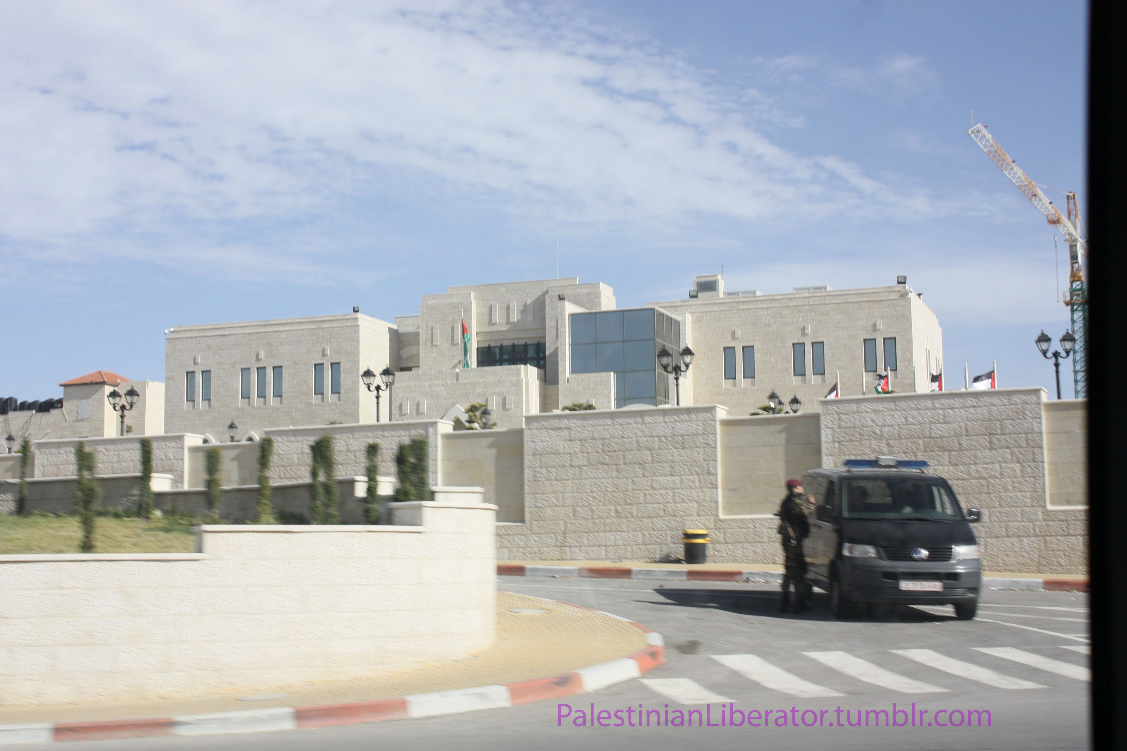 Taken today [January 16th 2013] of the Palestinian Presidential Compound, the Ramallah Muqataa, and provides a more clear view of what the compound really looks like.